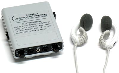 SmallTalk anti-stuttering device, made by Casa Futura Technologies.